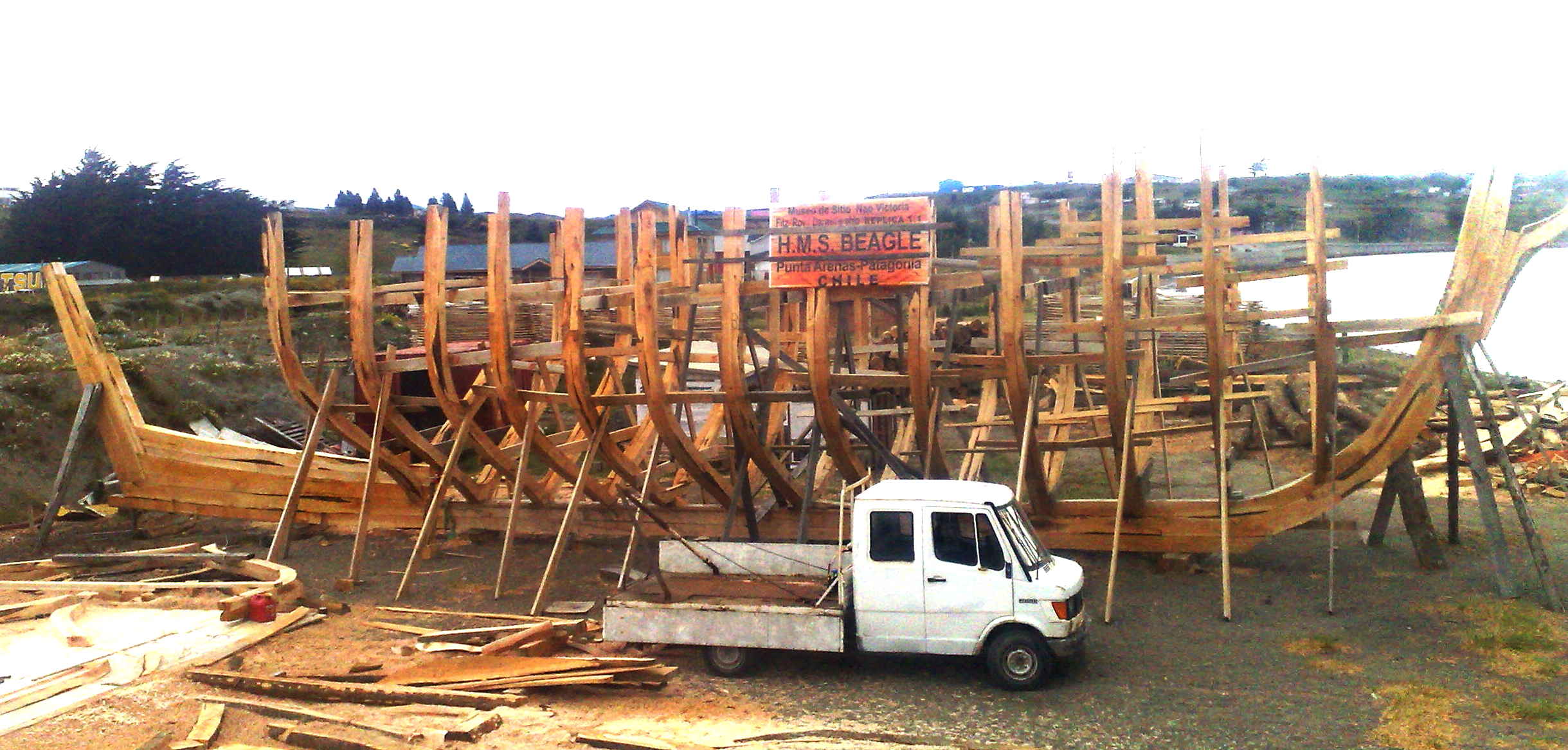 The first frames of the HMS Beagle stands on the keel of the first ever HMS Beagle full size replica. The work in ongoing in the Museum Nao Victoria - Chile